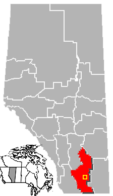 Location of Taber, Census Division No. 2, Albera